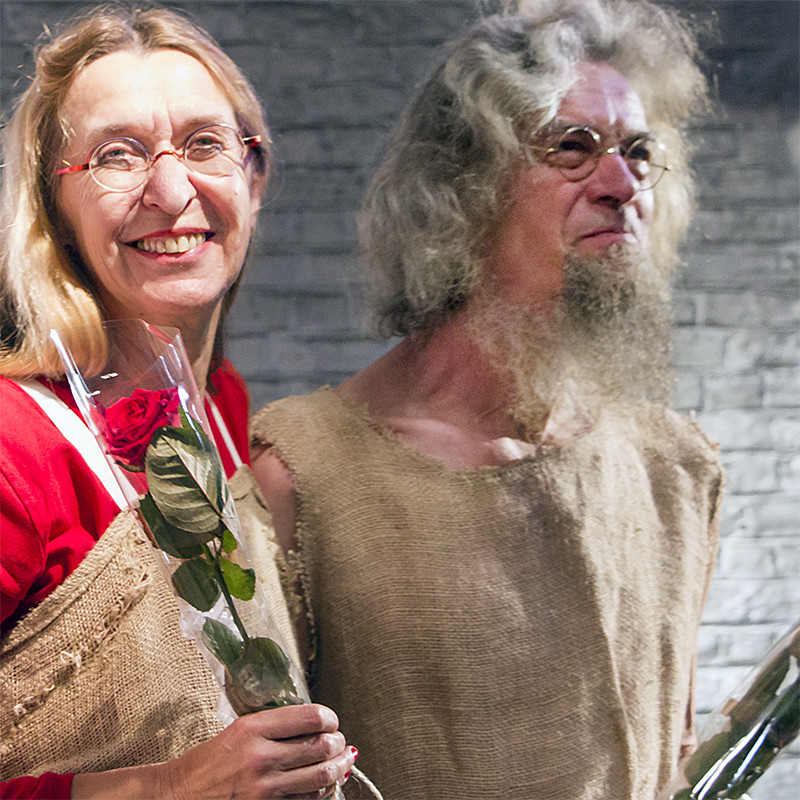 Monica Darge and Godfried-Willem Raes greeting the public after a very successful "Dreigroschenoper" (Three Penny Opera) performance at the Logos Foundation.